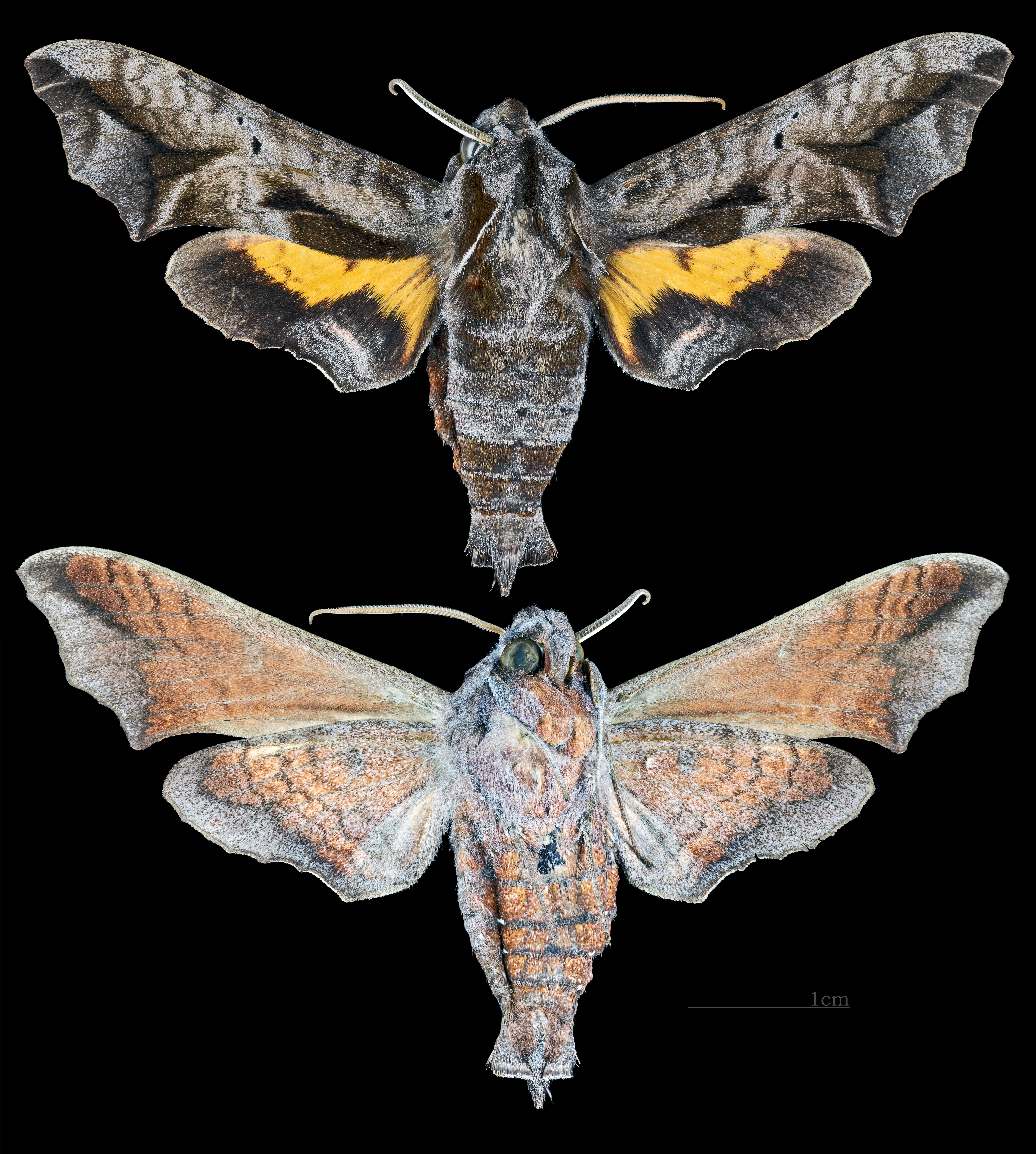 Nyceryx continua - Two views of same specimen Collection of the Mathematician Laurent Schwartz